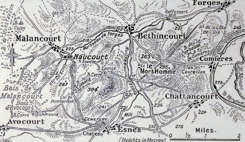 West bank of the Meuse, Verdun, 1917